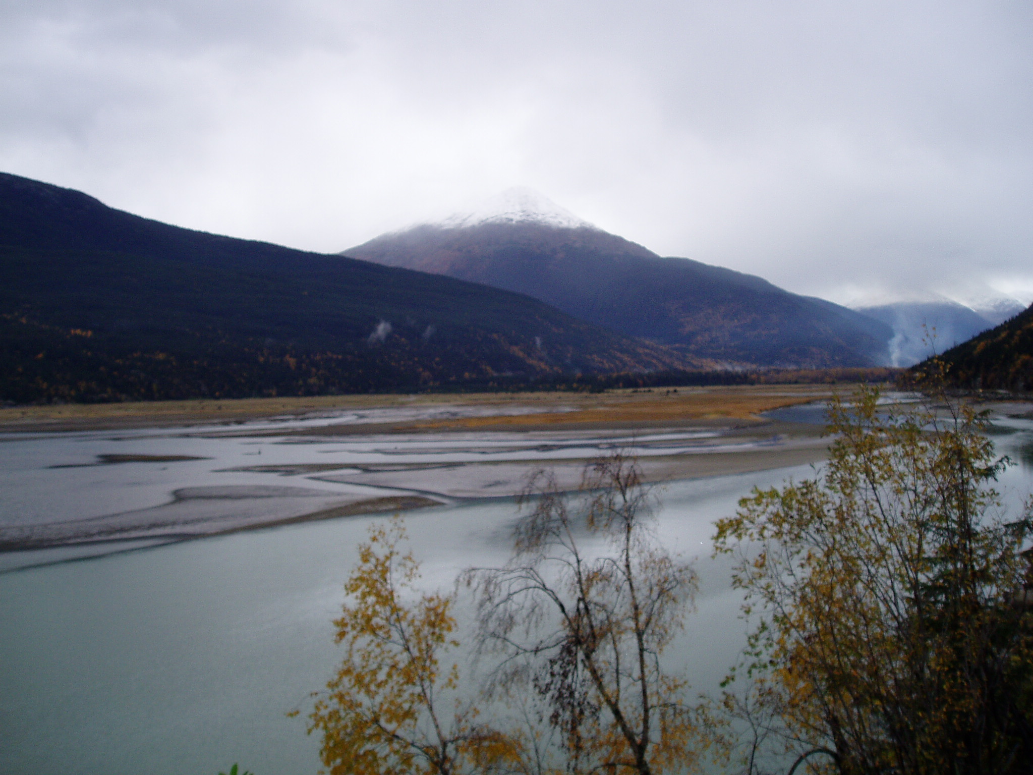 Picture taken by Luigi Zanasi on Dyea road near Skagway, Alaska (October 11, 2005) showing the Taiya River estuary and site of the former Klondike gold rush town of Dyea at the beginning of the Chilkoot Trail.